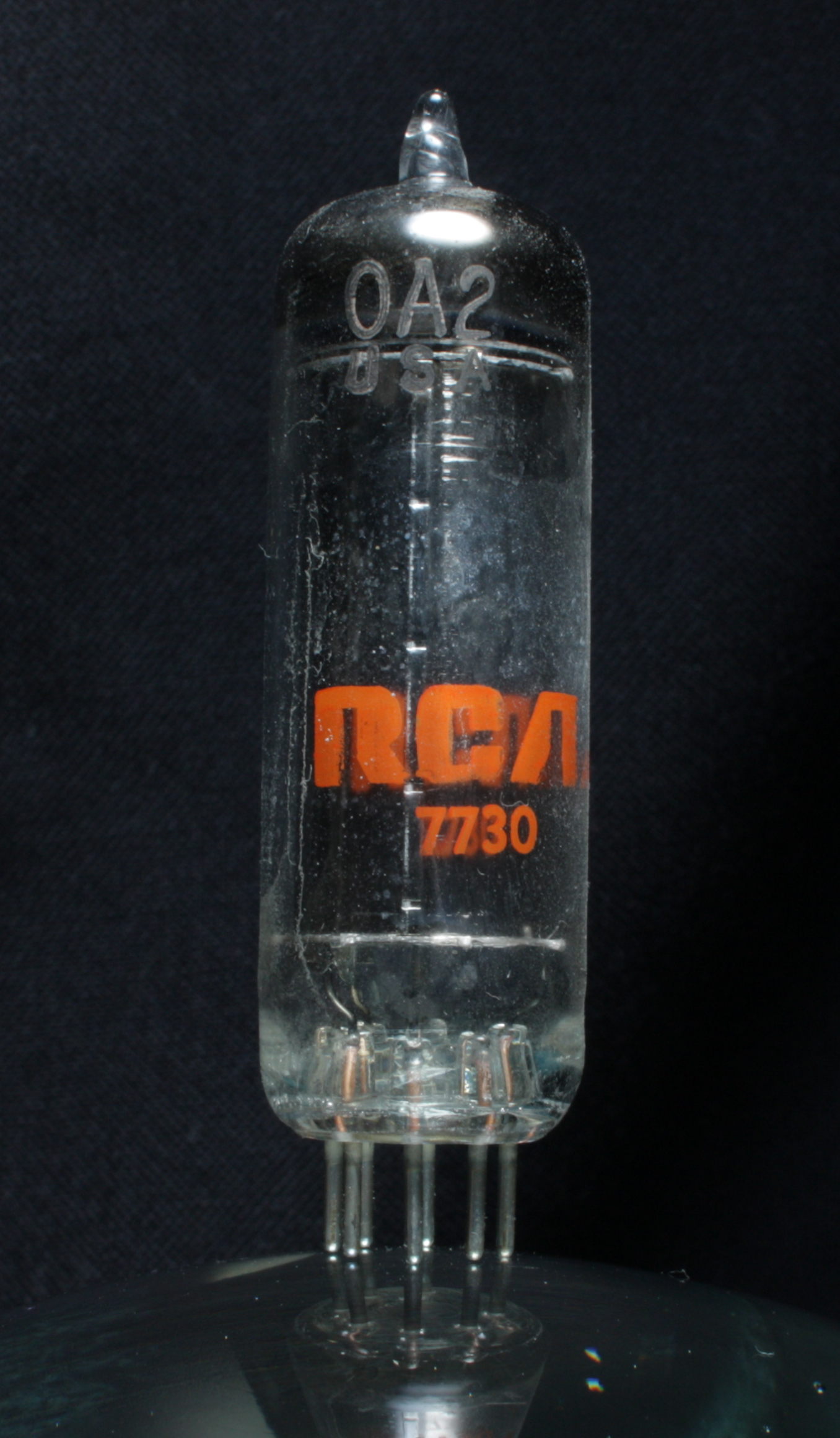 RCA OA2 Gas-filled, glow-discharge voltage regulator tube